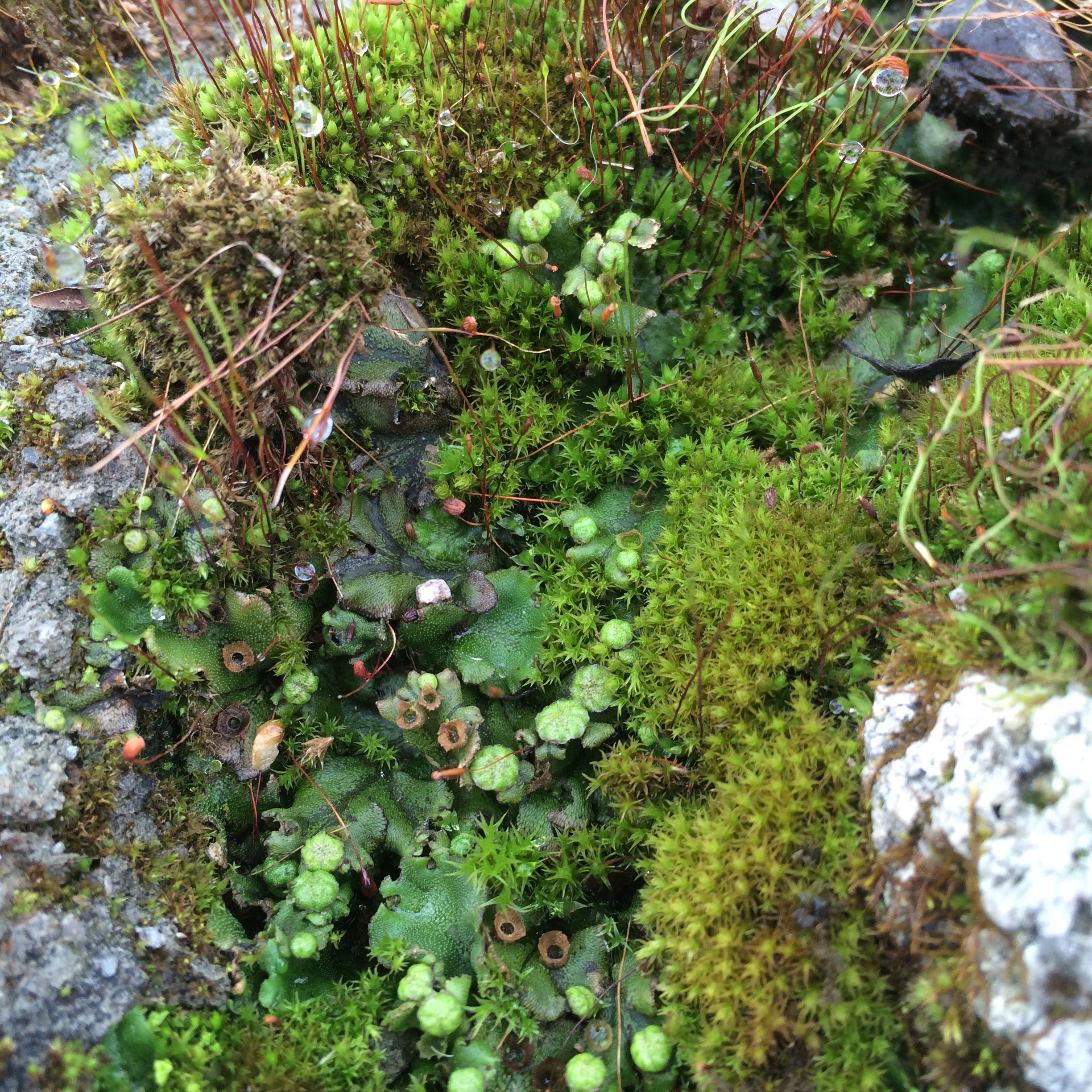 A growth of various bryophytes (here liverworts and leafy mosses)